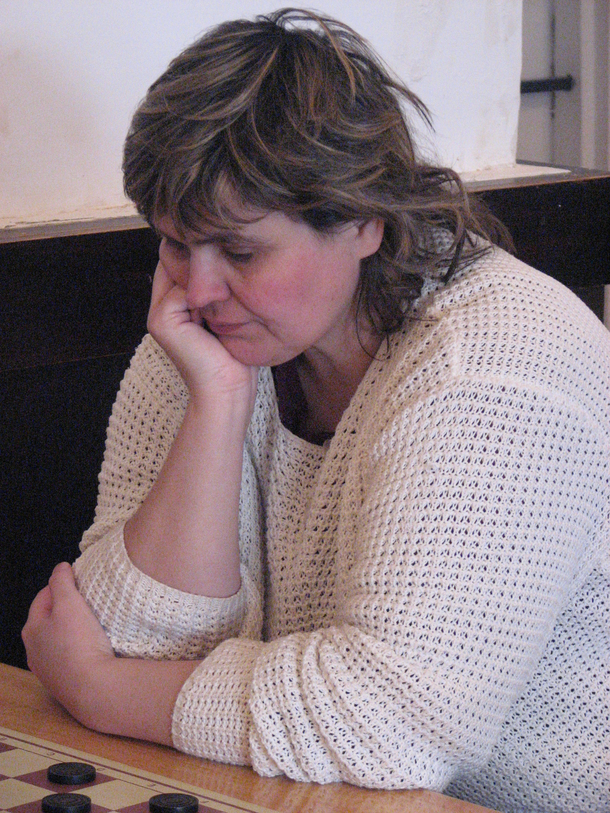 Piret Viirma playing draughts.